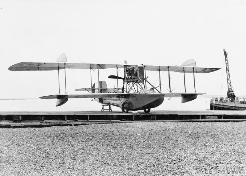 Photograph of a White and Thompson No. 3 two-seat flying boat.